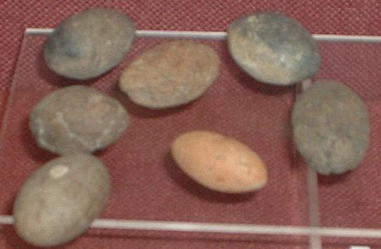 Sling bullets of baked clay and stone found at Ham Hill Iron Age hill fort. Photograph was taken in the Somerset County Museum in Taunton on 29-Oct-05.